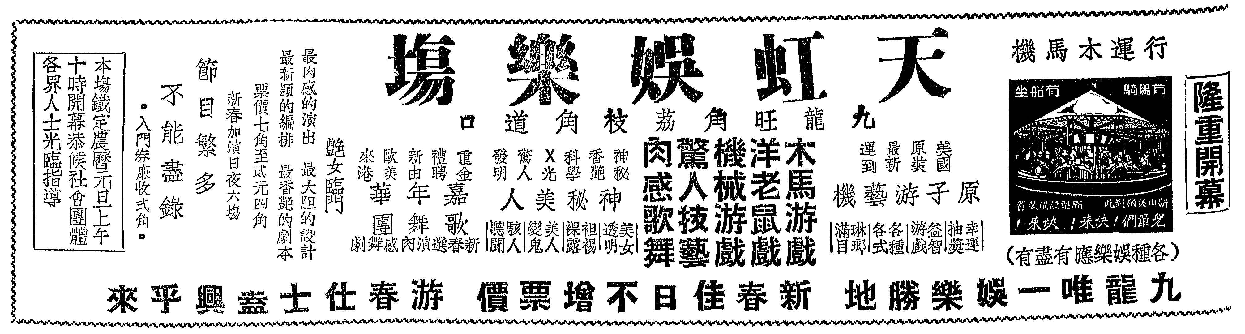 Grand Opean Advertisement of Tin Hung Amusement Park, Hong Kong 中文（香港）: 香港天虹娛樂場的開幕廣告